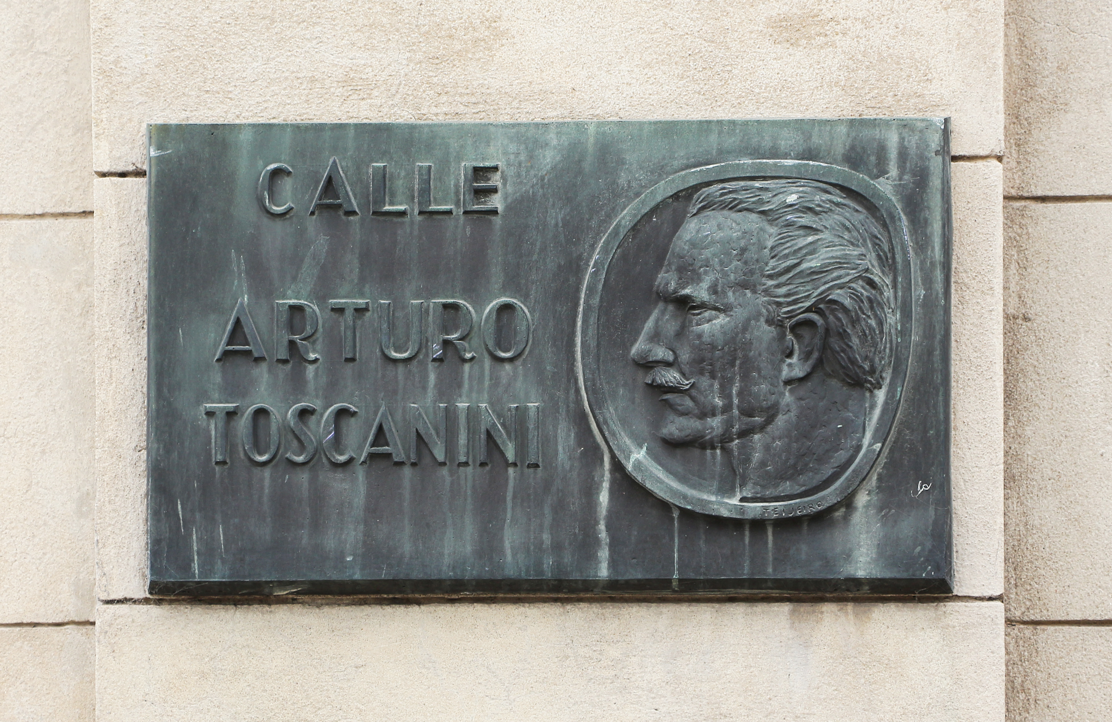 Calle Arturo Toscanini, Buenos Aires